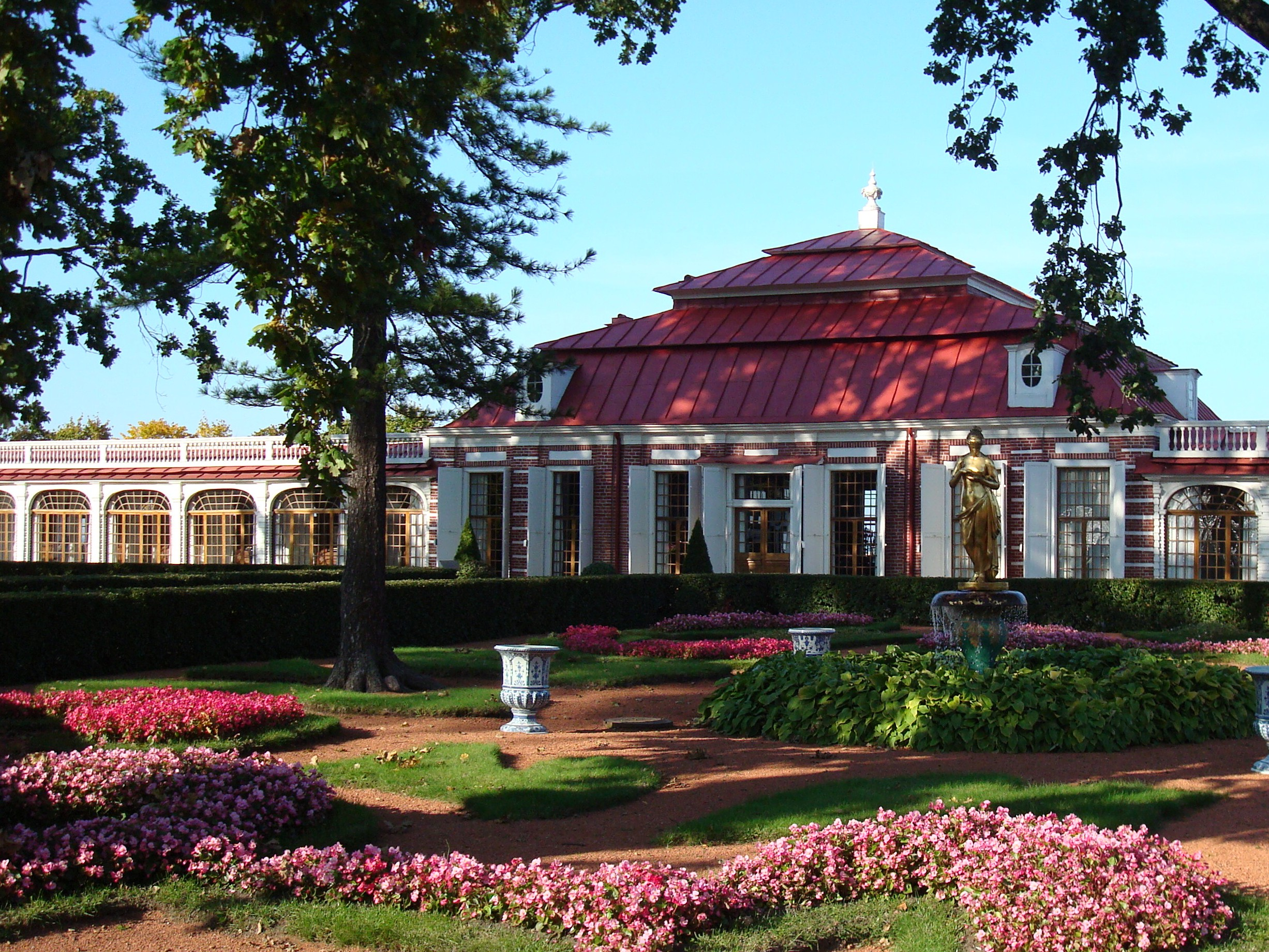 Palace Monplaisir in Peterhof